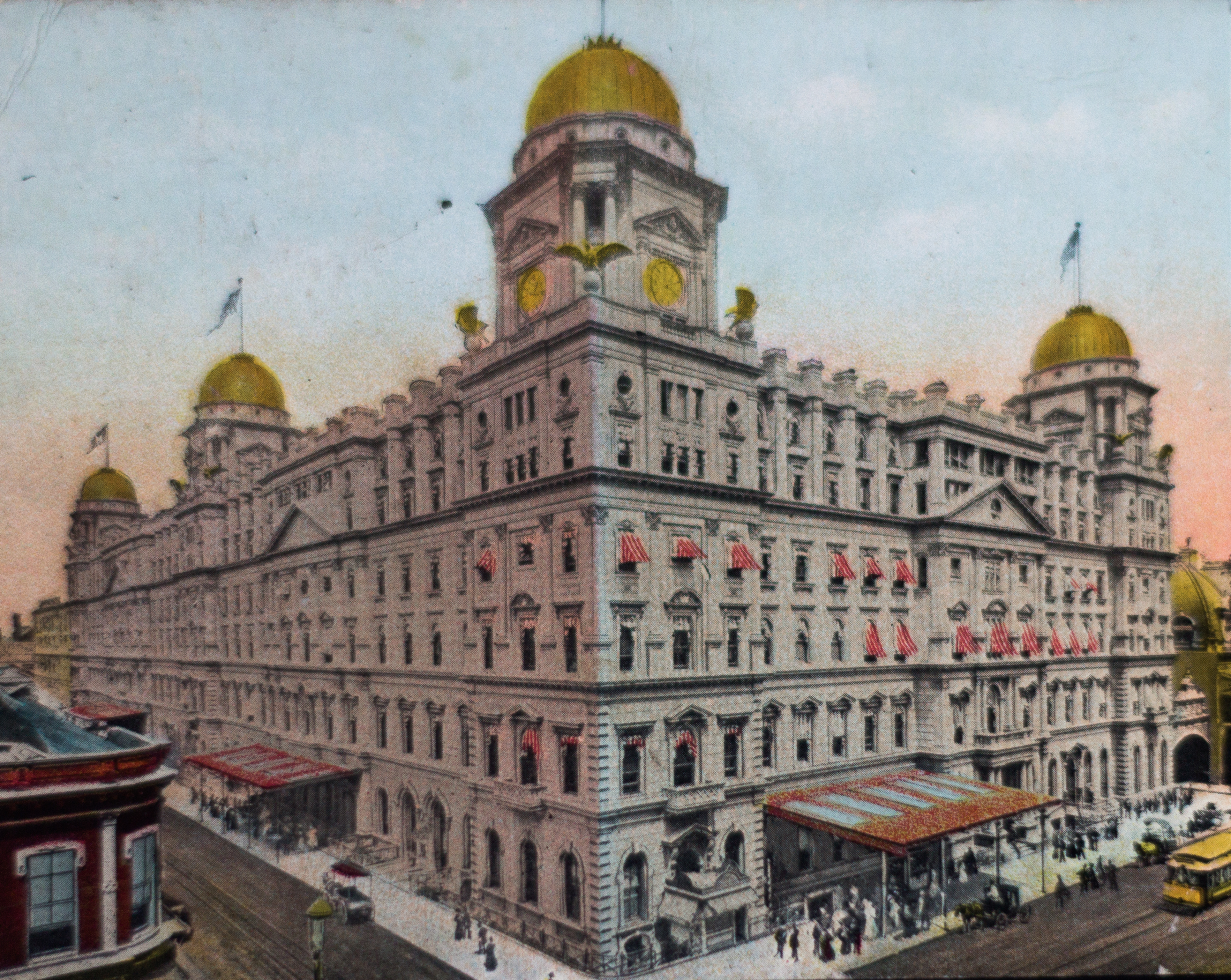 Grand Central Station, New York c. 1902, with 6 stories, designed by railroad architect Gilbert Bradford, then destroyed and renamed Grand Central Terminal. Image Title: GRAND CENTRAL STATION, NEW YORK Notes: Written on border: "1969 Illustrated postcard co., N.Y." Published Date: circa 1902 Item Physical Description: 1 colorized postcard ; 8,8 x 13,8 cm. (3,5 x 5,4 in.)